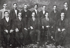 Directors of the club Rio Branco in 1911.